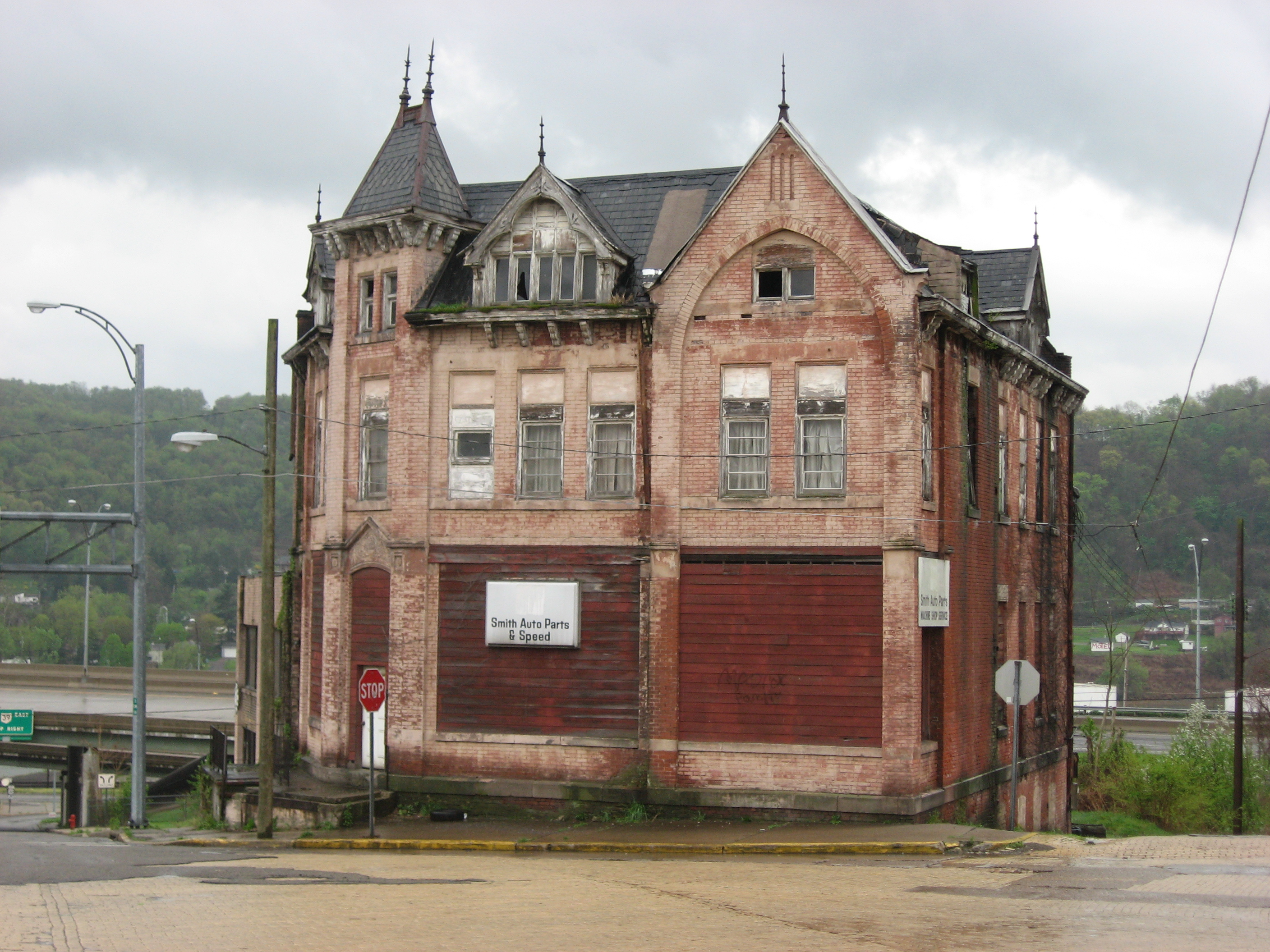 Front of the old Potters National Bank, located at the intersection of Fourth Street and Broadway in downtown East Liverpool, Ohio, United States. Built in 1882, the bank — an automobile parts store when this photograph was taken — is listed on the National Register of Historic Places, even though it was demolished on 16 November 2010.